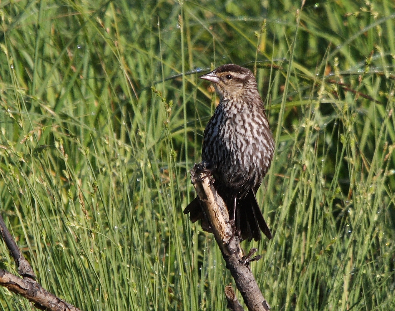 Red-winged Blackbird, female, Réserve naturelle des Marais-du-Nord, Quebec, Canada.